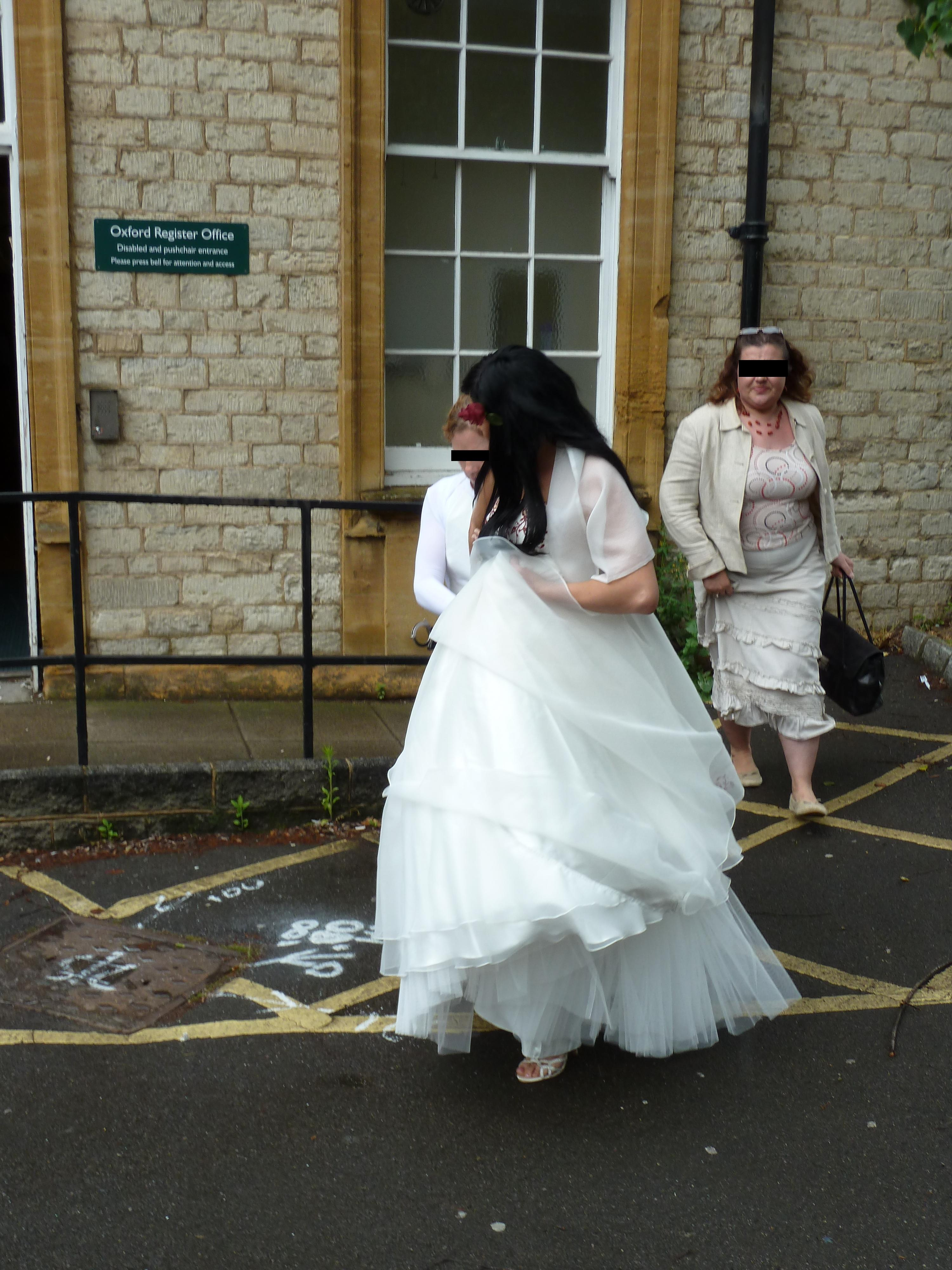 Operation by officers from the UK Border Agency at Oxford Registry Office on 8 June to stop a suspected sham marriage.